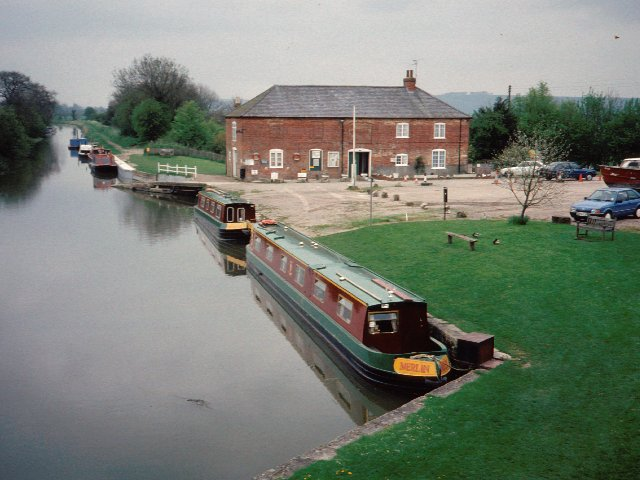 Pewsey Wharf. On the Kennet and Avon Canal